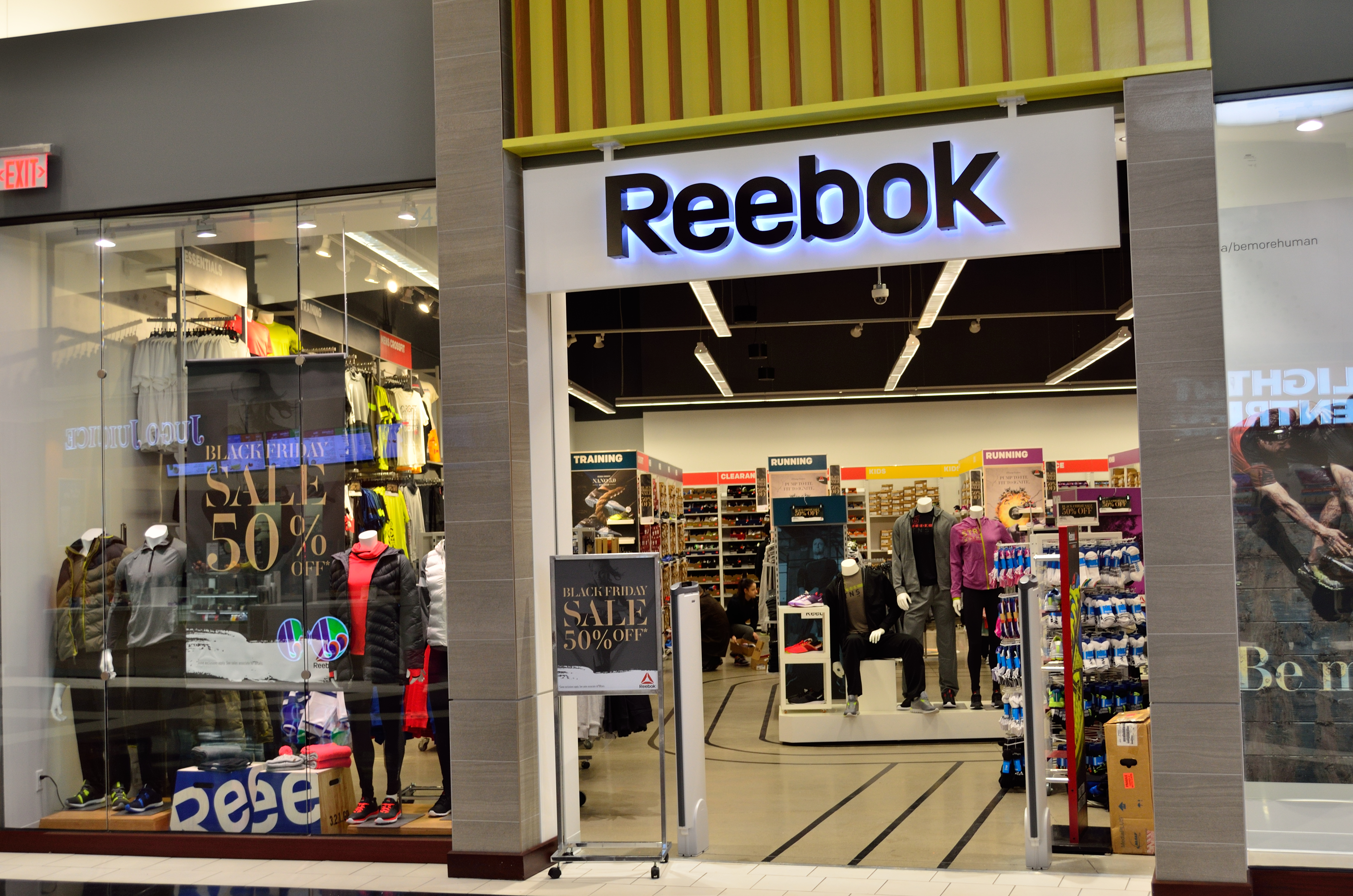 Reebok at Vaughan Mills